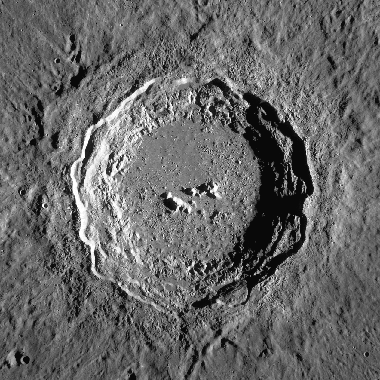 Crater Copernicus on the Moon. Mosaic of photos by Lunar Reconnaissance Orbiter, made with Wide Angle Camera. Size of the image is 150×150 km, north is up.